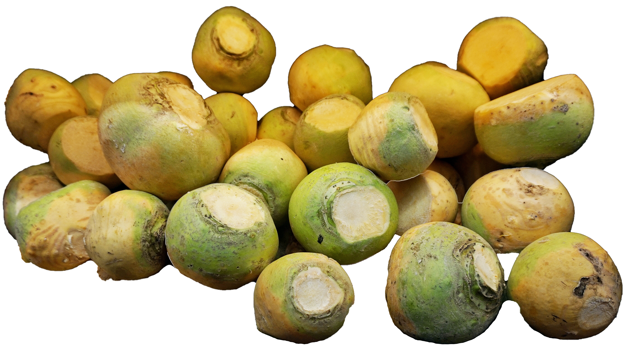 A pile of rutabagas in Citymarket, Jyväskylä.